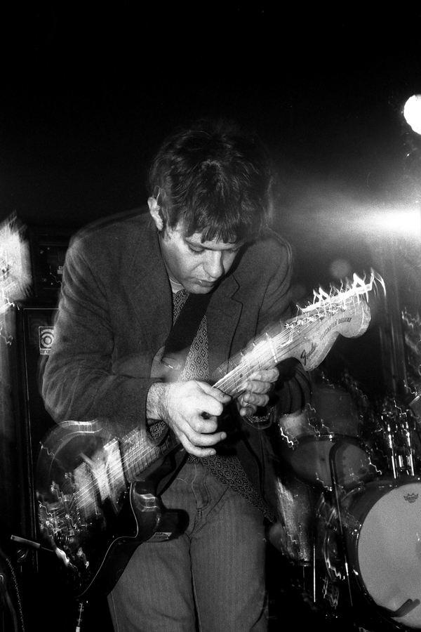 sonicyouthbw12